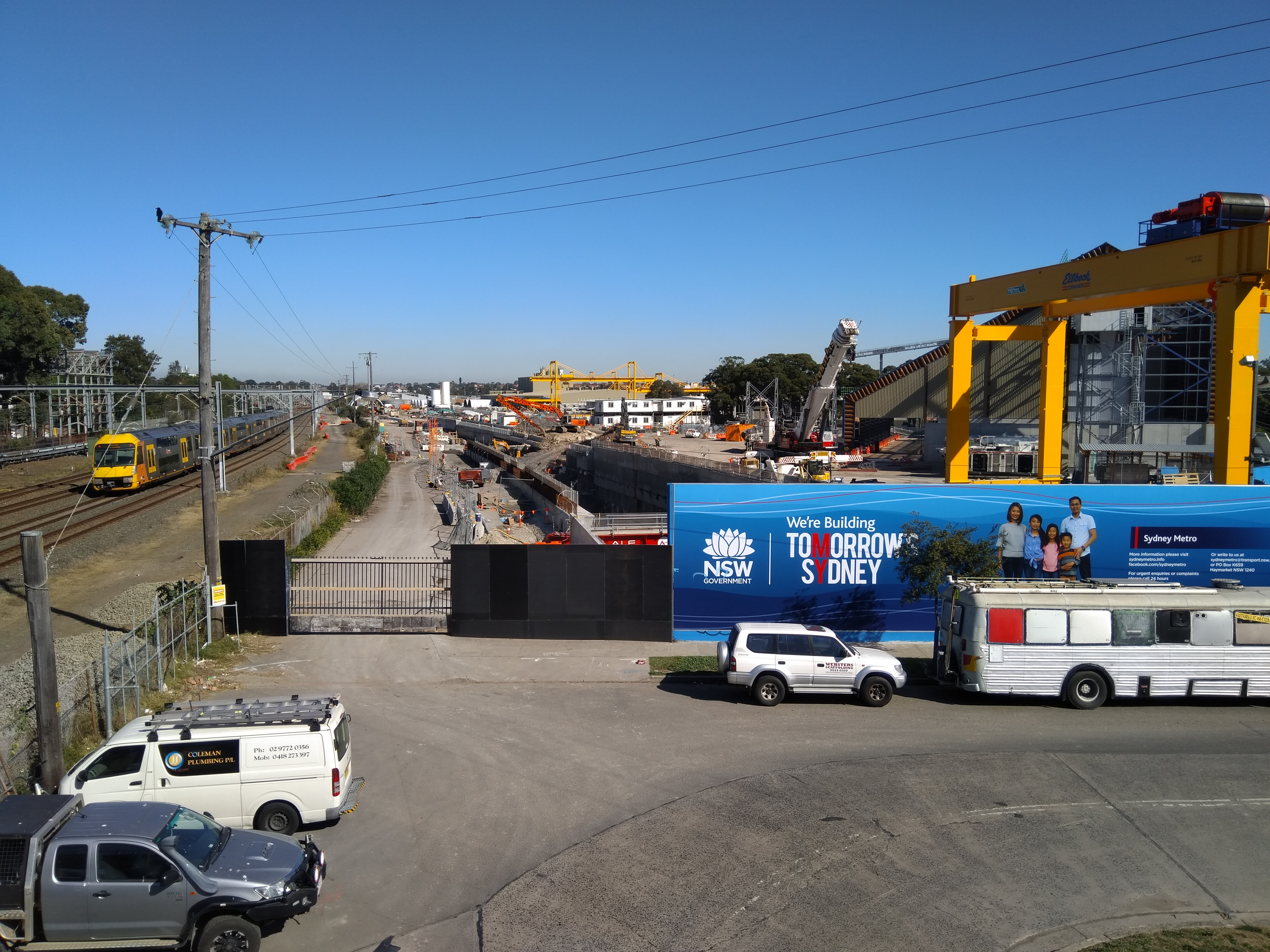 Sydney Metro Marrickville dive site in August 2018.